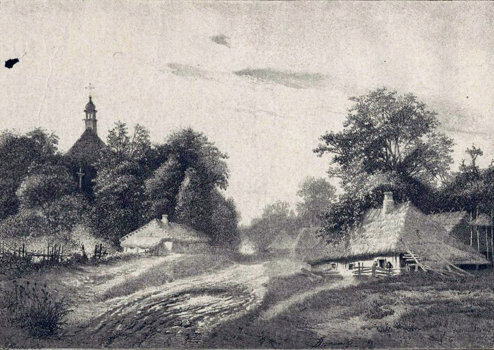 Huts and orthodox church of Wereszczyn in spring of 1884